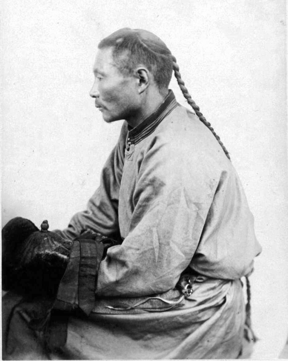 Ossur, a Tozhin Tuvan of 32, Iy River, photograph by P.E.Ostrovskikh, 1897